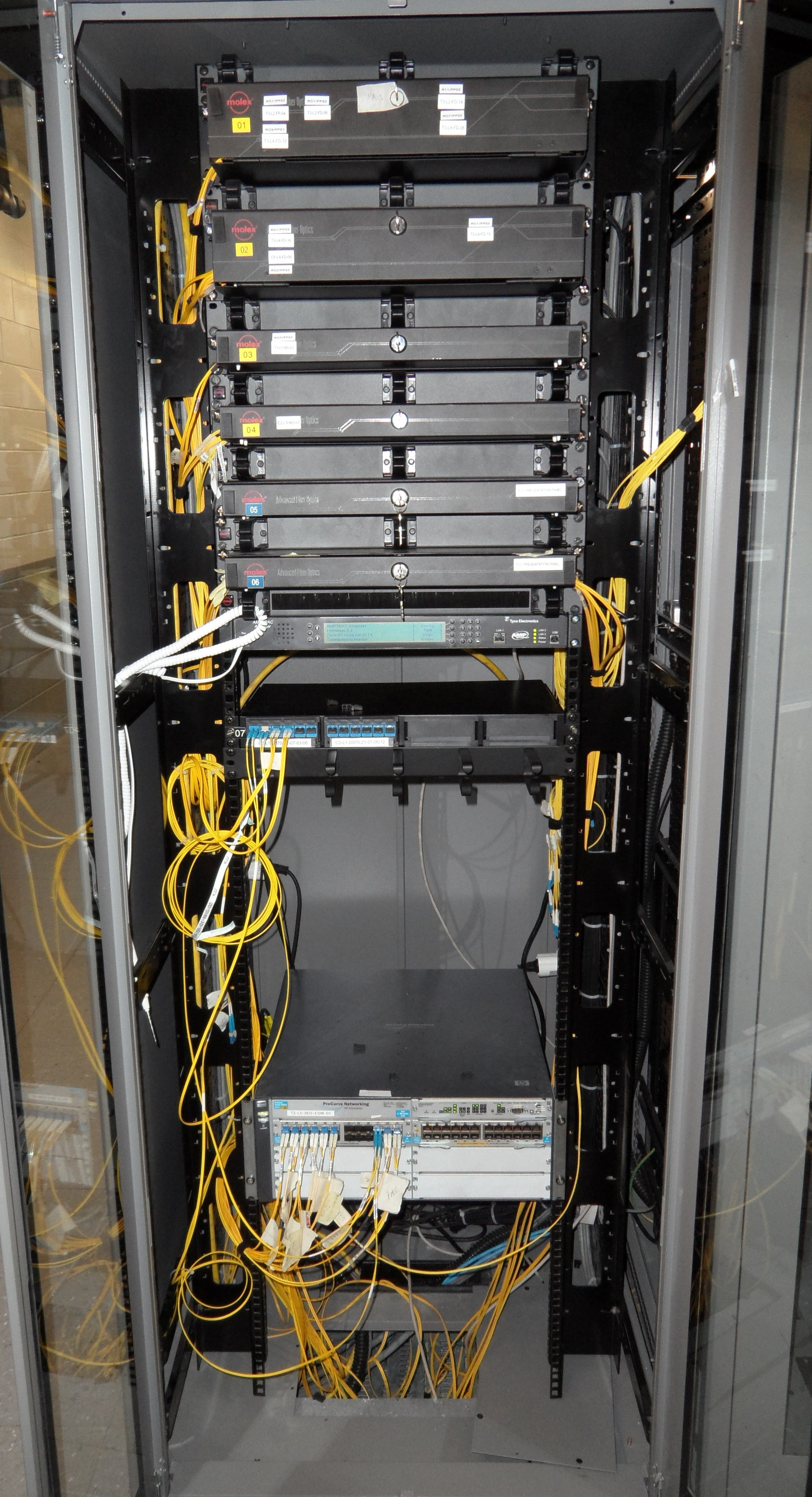 Photo of a Rack containing Fiber Patch Panels